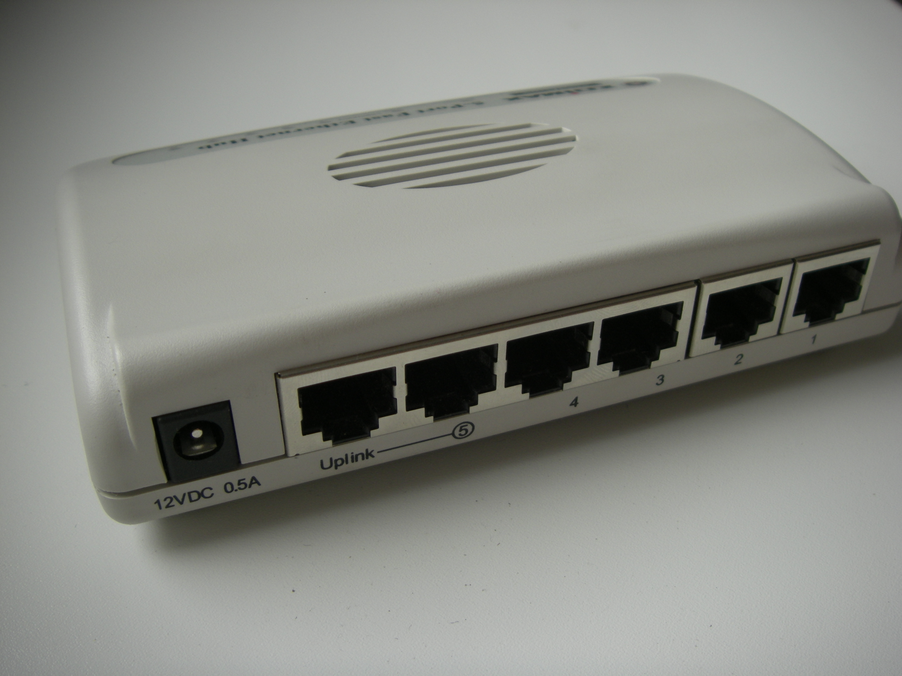 4 porst edimax hub (SOHO formfactor), see also Image:Edimax 4porst hub.jpg